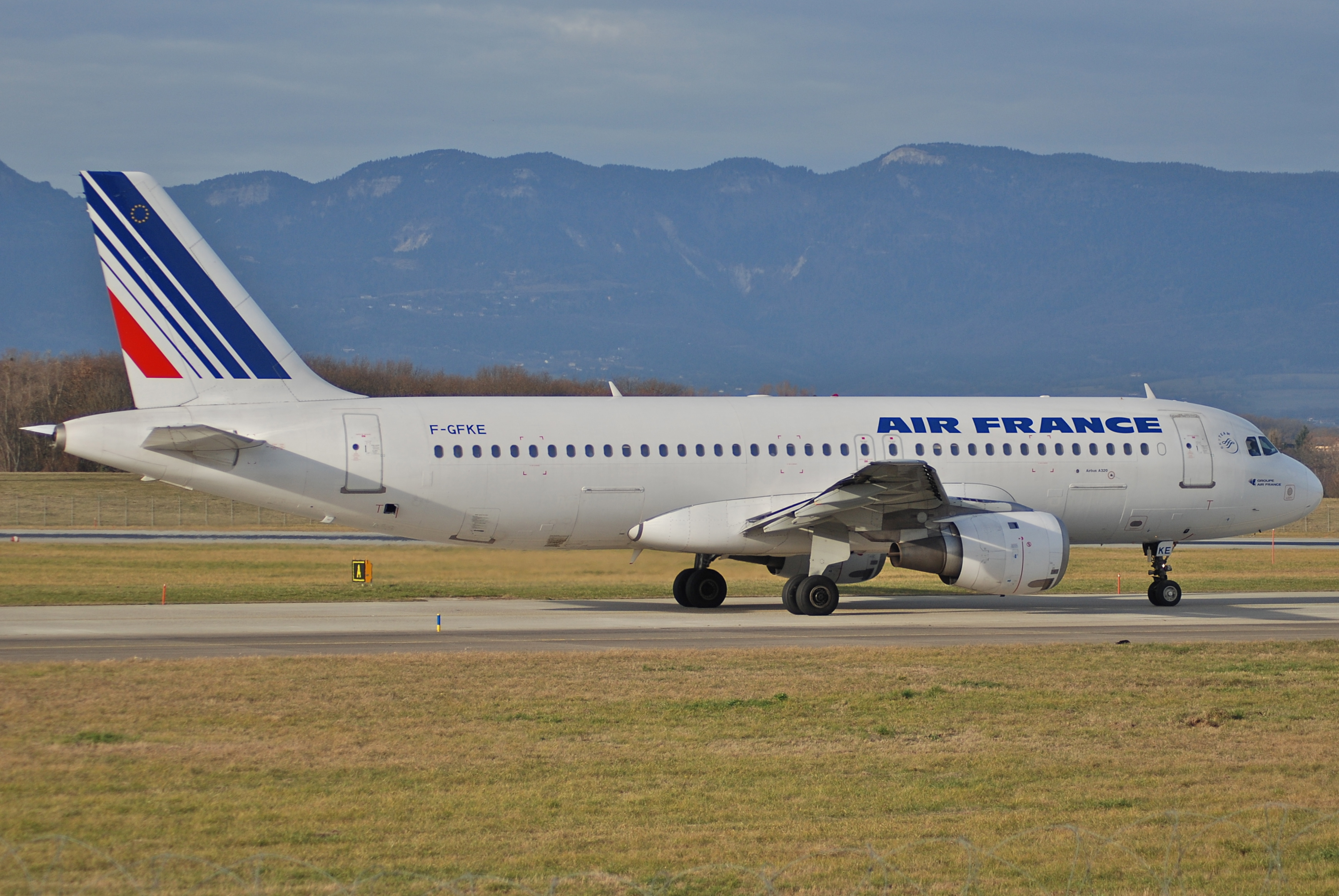 This Airbus A320-111 took its first flight on September 7, 1988...(c/n 19) 29/10/1988 Air France F-GFKE, stored 12/2009, scrapped by 08/2010